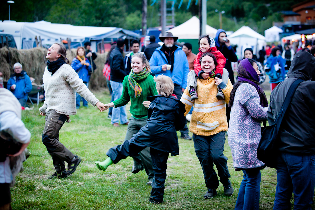 People on Riddu Riddu. Photo: Marius Fiskum